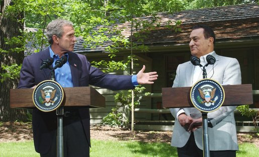 President George W. Bush speaks during a press conference with Egyptian President Hosni Mubarak after their meeting at Camp David, Saturday, June 8, 2002. President Bush said "We spent time talking about the Middle East and we share a common vision of two states living side by side in peace. And I appreciated so very much listening to his ideas as to how to achieve that objective."